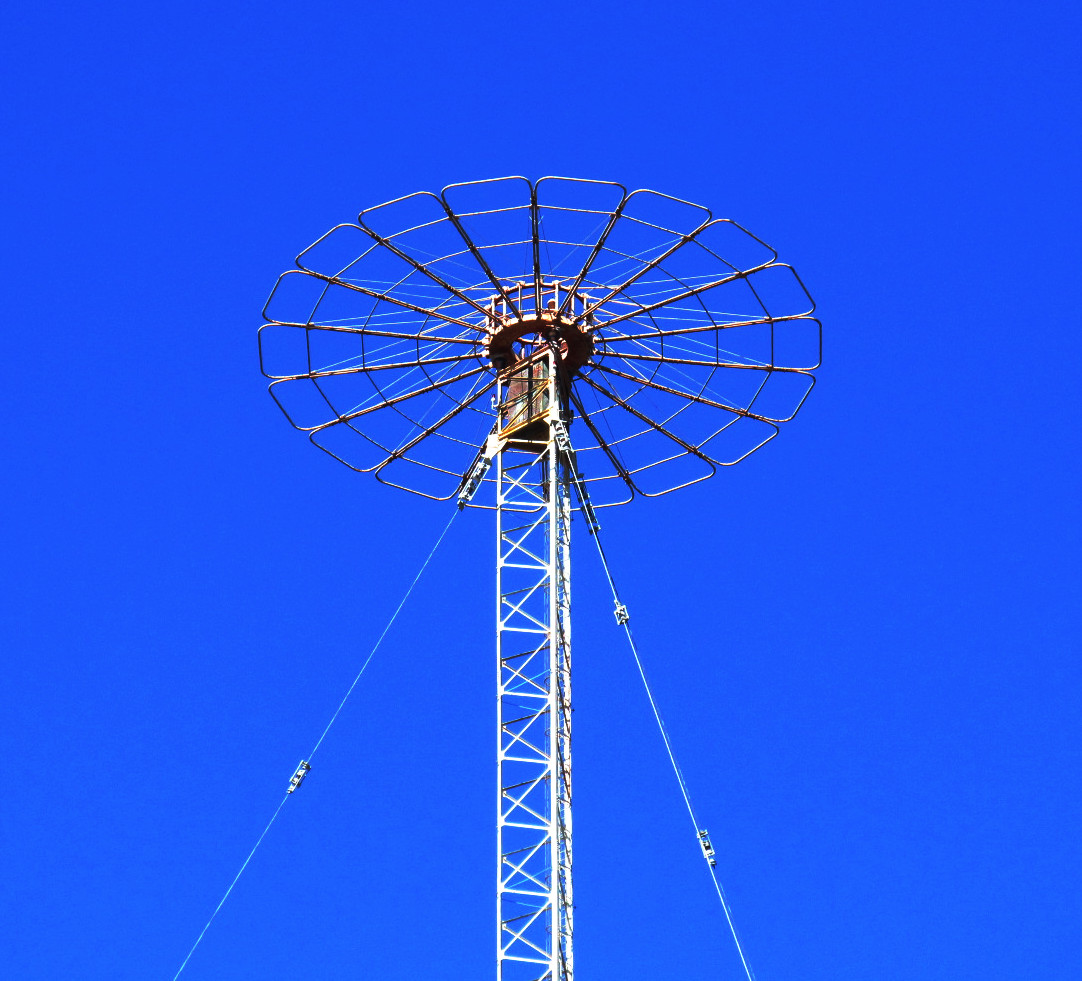 Closeup of the top of the ABC AM radio tower in Hamersley, Western Australia. The circular structure at top is called a "capacitive hat" or "top hat". Antenna towers at these frequencies are mast radiators; the structure of the mast itself serves as the antenna. Often, because of expense or height restrictions, the mast cannot be built as tall as it should be for optimum radiation. The radial screen of the "capacitive hat" adds capacitance to the top of the antenna, increasing current in the top part, making the tower act electrically as if it was taller, so it has higher gain.